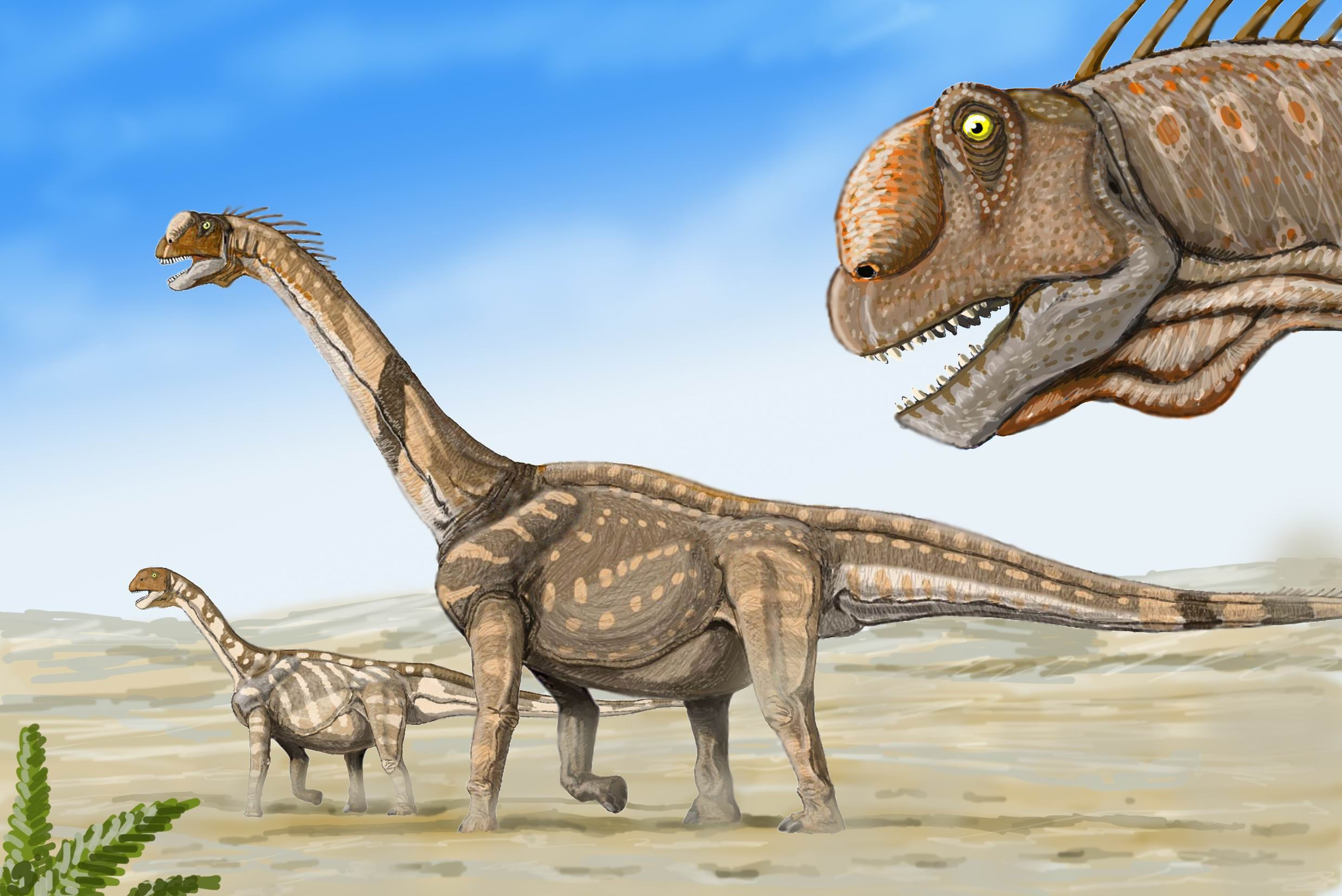 Life reconstruction of Camarasaurus supremus